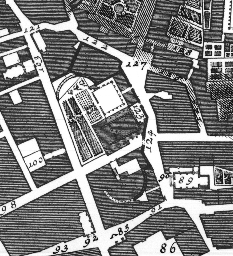 The New Plan of Rome by Giambattista Nolli part 5/12